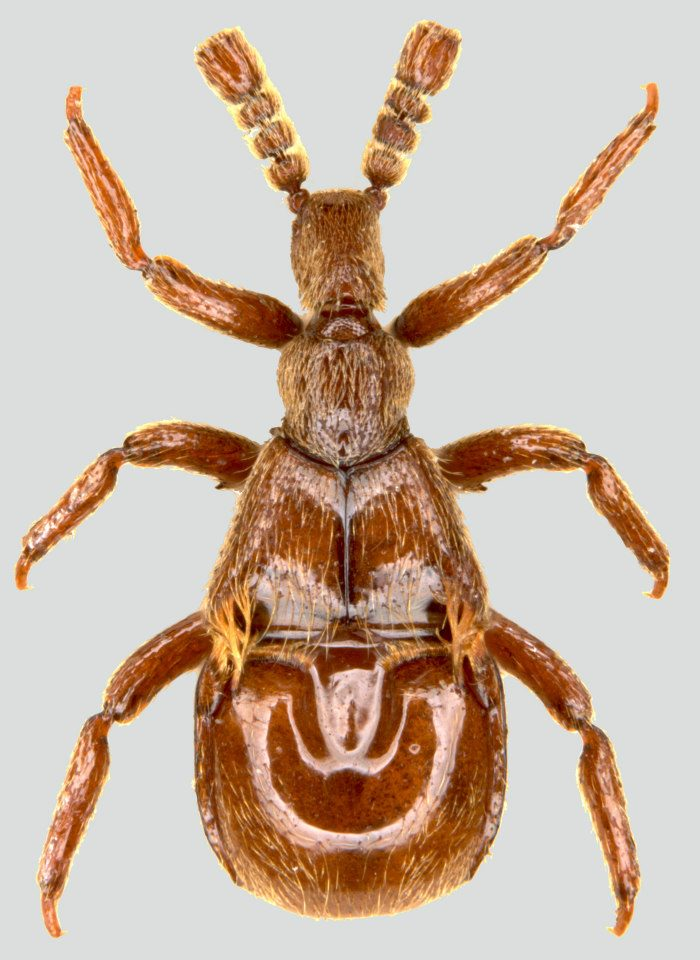 Claviger testaceus, specimen held in the Oxford University Museum of Natural History